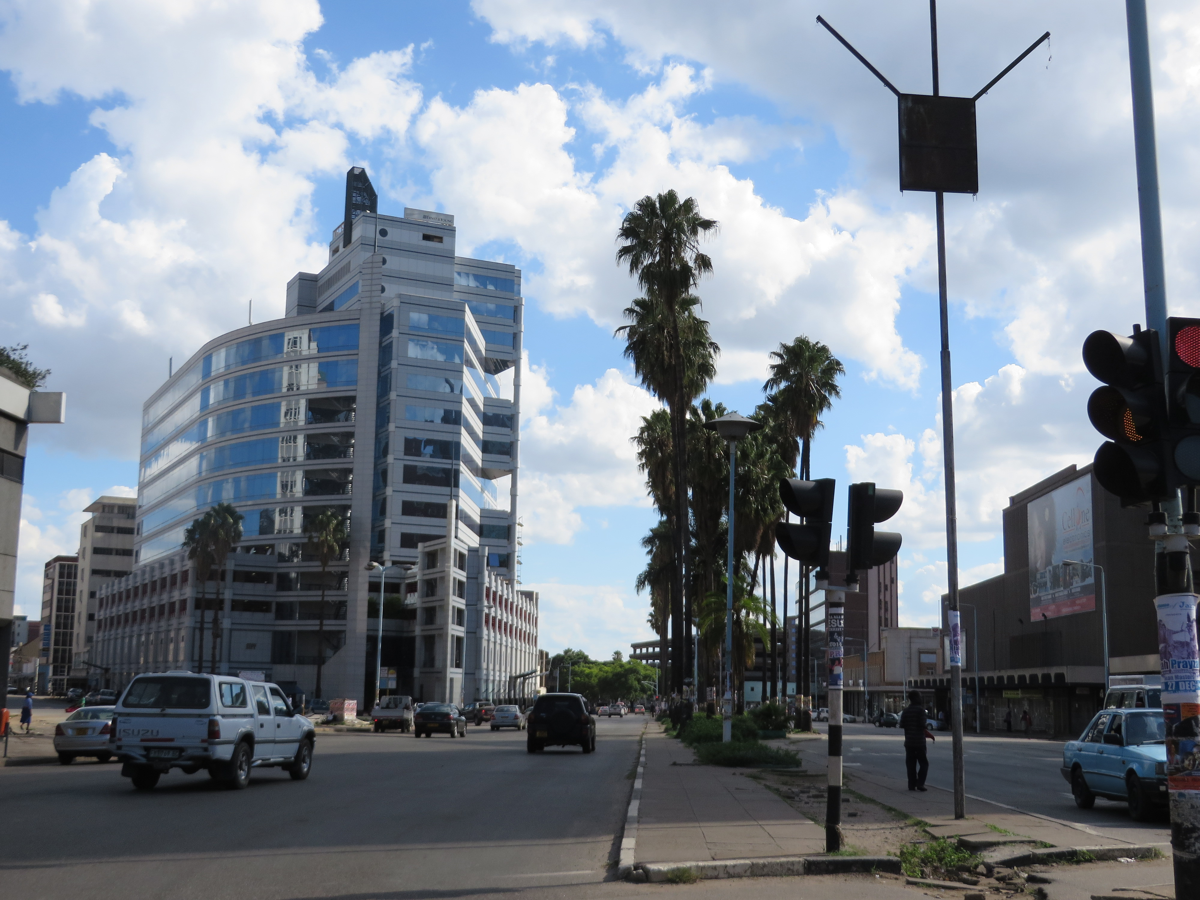 Downtown Harare, Zimbabwe